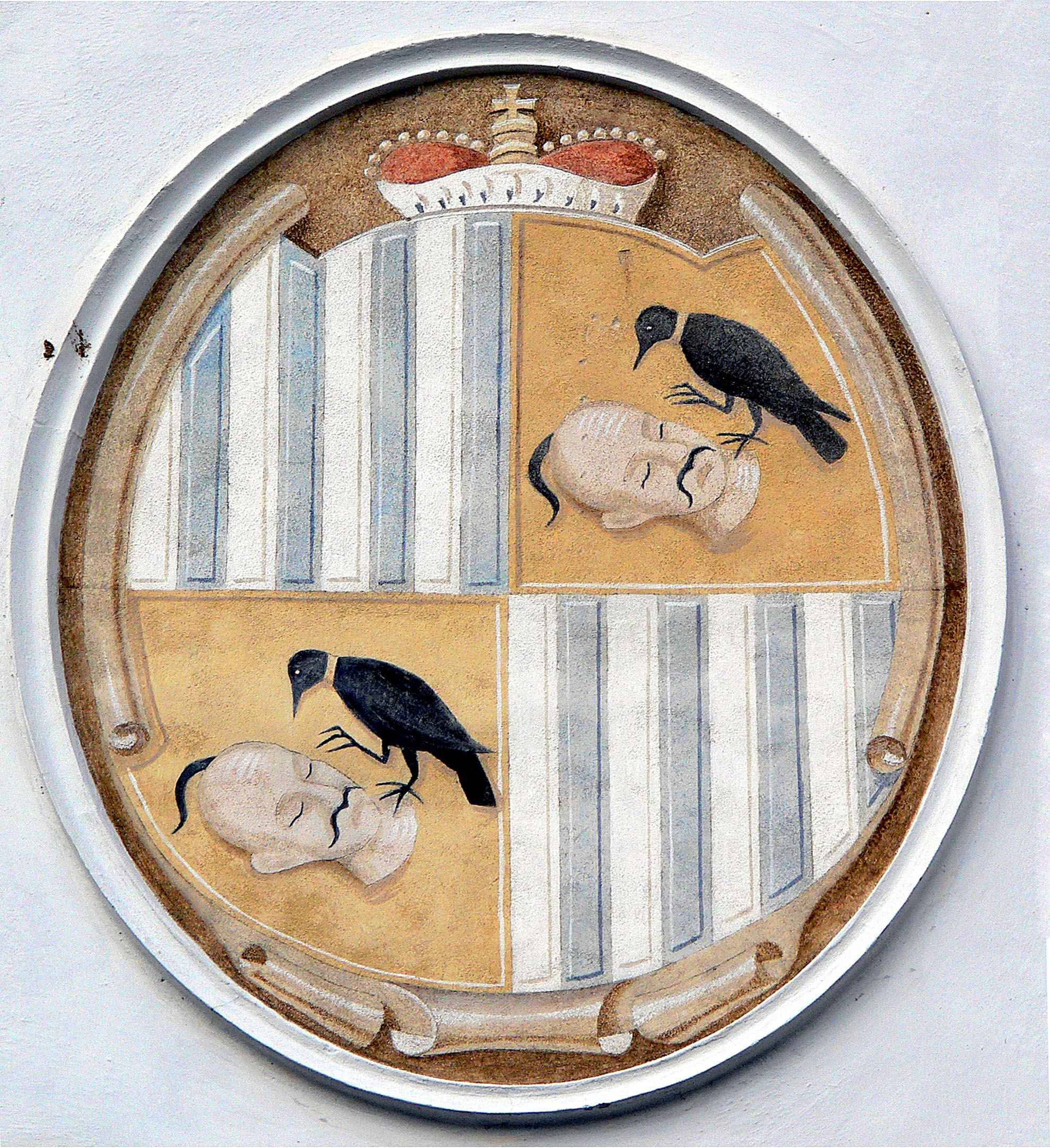 Český Krumlov. Coat of arms of the house of Schwarzenberg at the townhall.